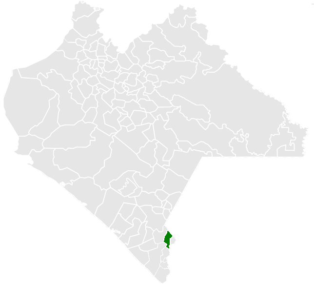 Map of the Municipalty of Cacahoatán in the State of Chiapas, México.